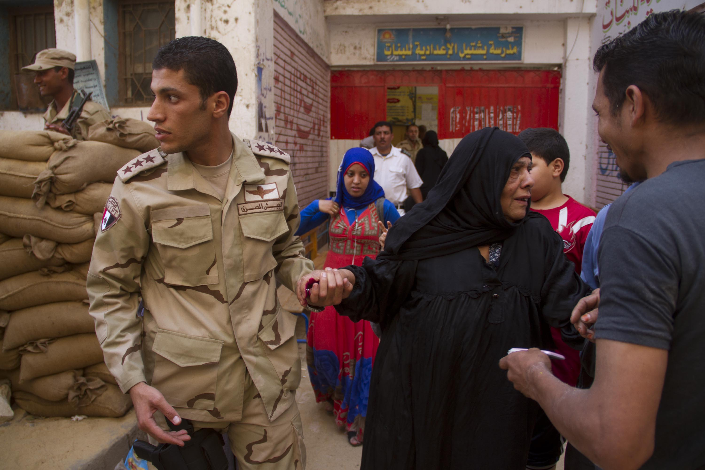 Original description: "A soldier helps a woman at a polling station in Cairo, May 27, 2014. (Hamada Elrasam /VOA)"